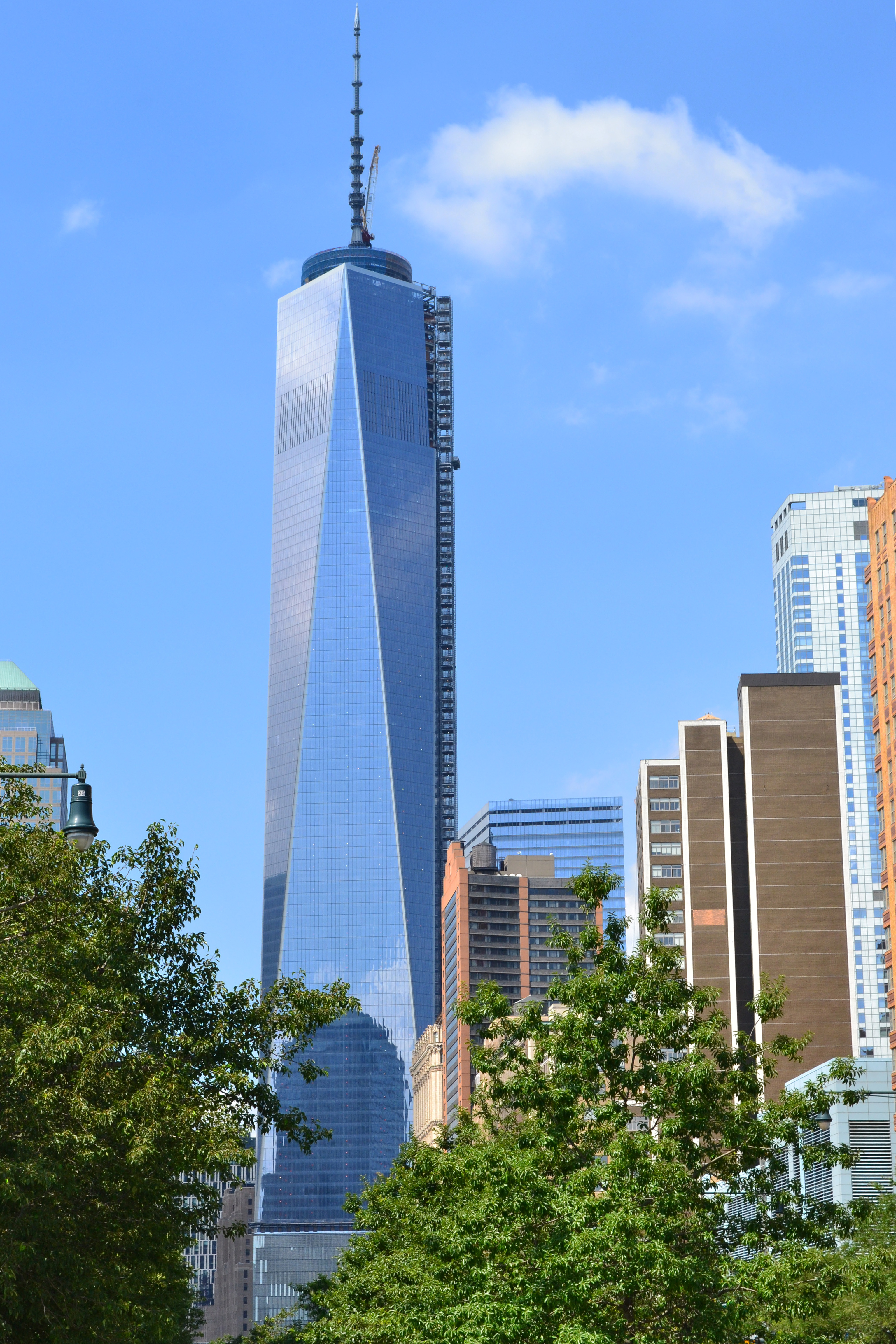 One World Trade Center in July 2013